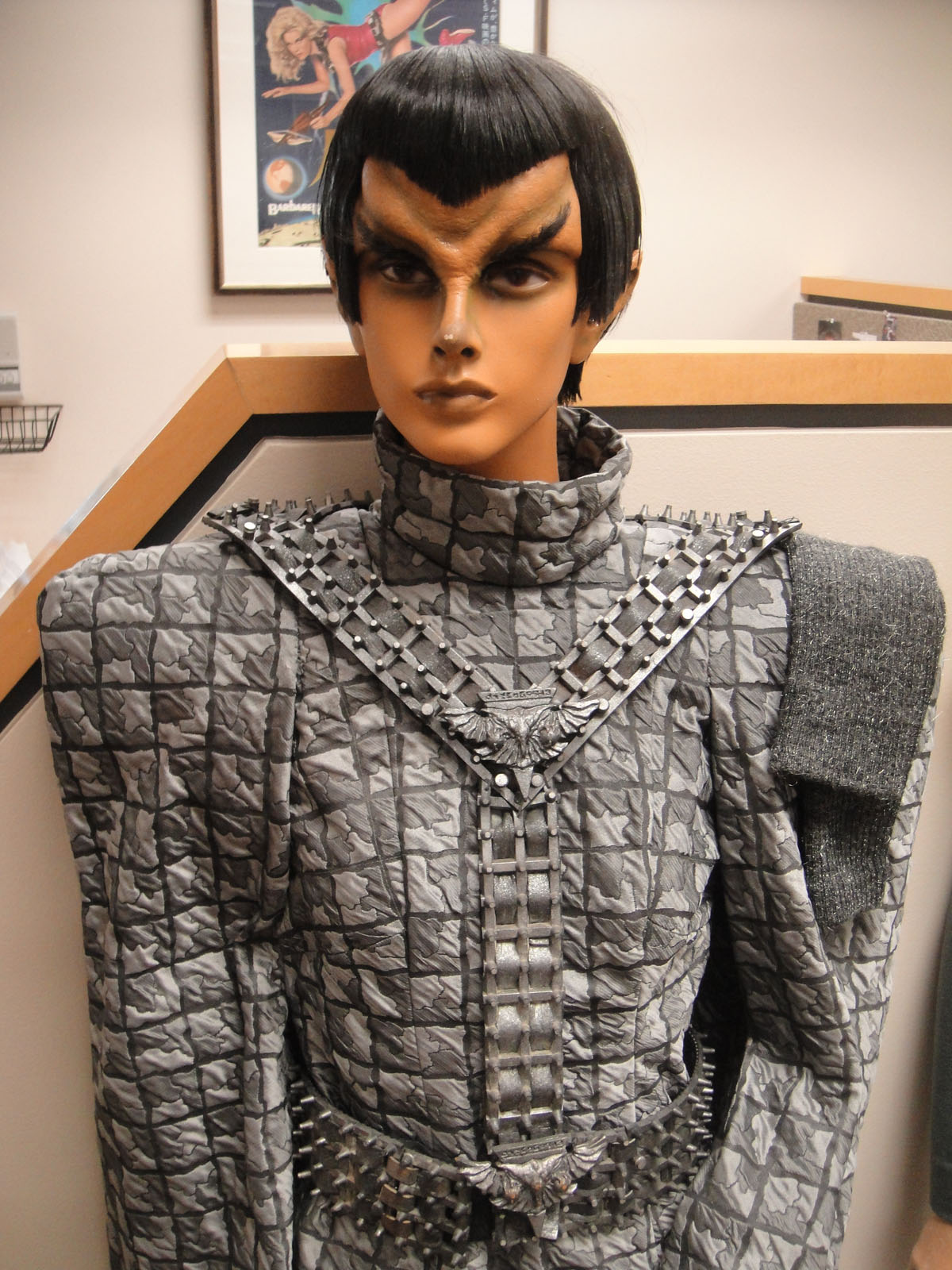 photo 2012 taken by Doug Kline If you're interested in higher resolution versions of my images, contact me via my profile page.